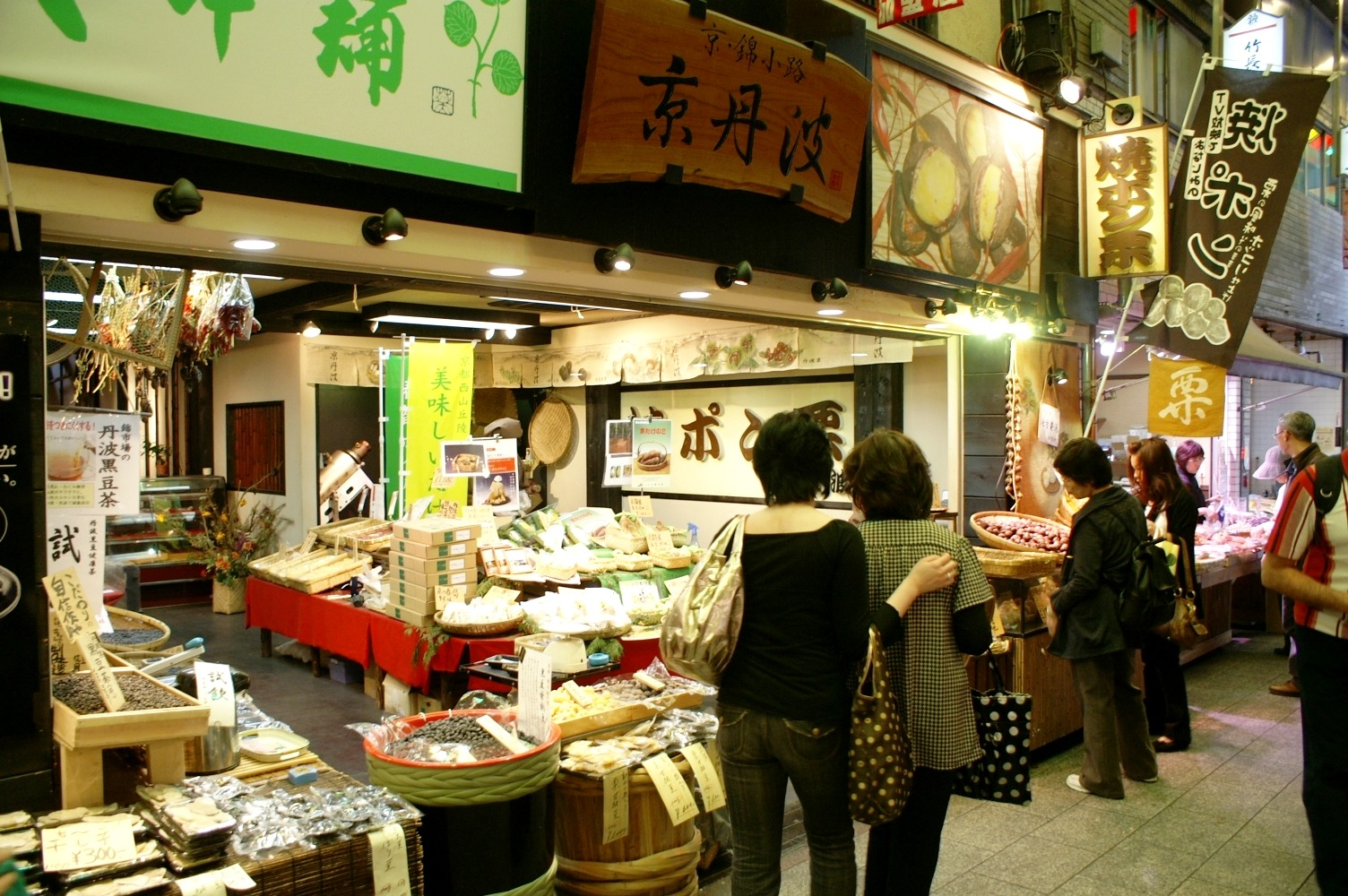 Here you can find all vegetable and japanese traditional foods, no cheap but clean and nice. Nishiki galery knows as "Kyoto's kitchen" has a history of several centuries and many store have been operated by the same family from any generation